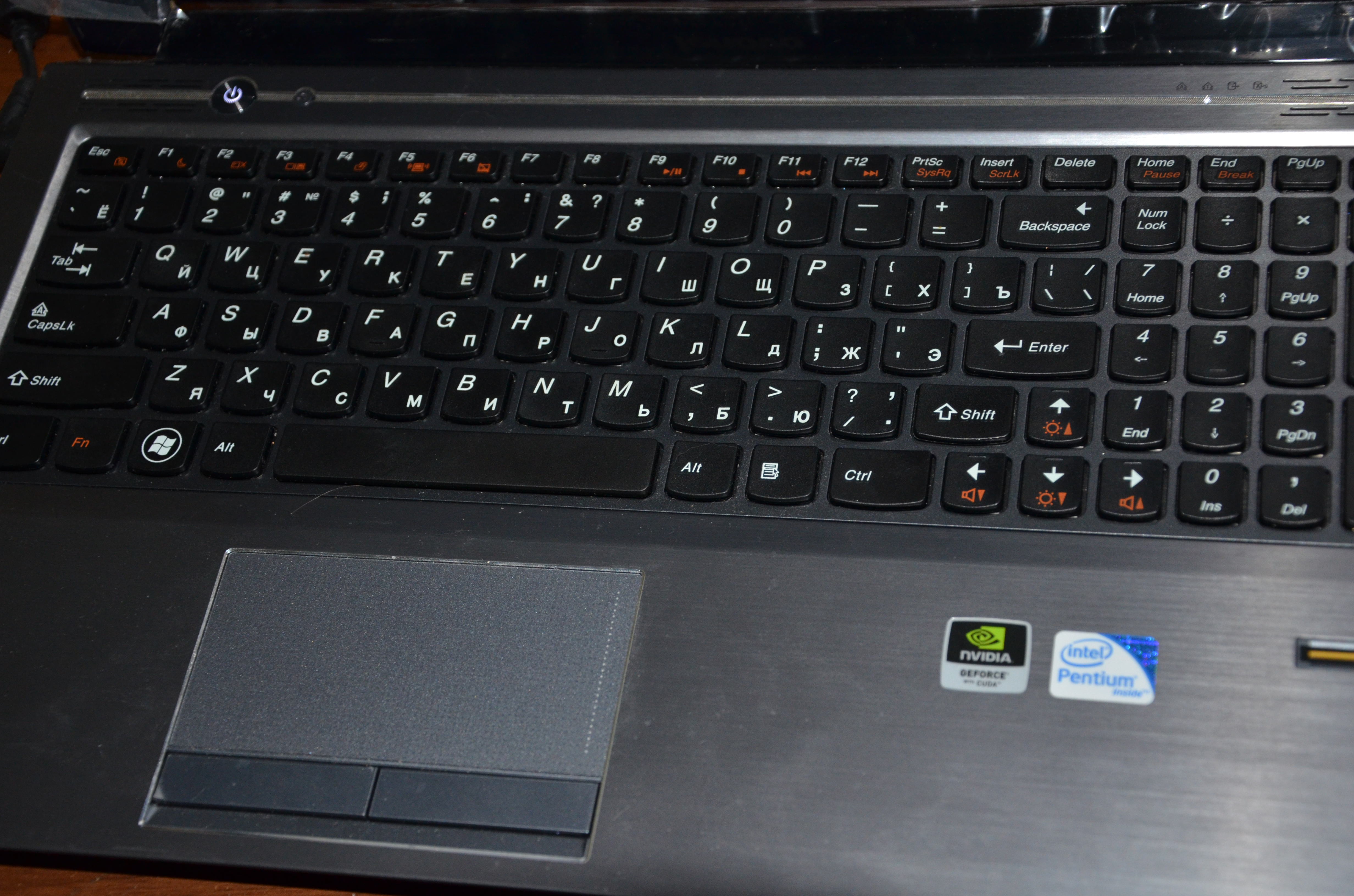 A Lenovo notebook keyboard is easily recognizable. The keyboard of a Lenovo V570 notebook.